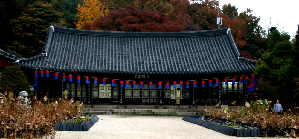 A view of the Bongwon temple (Bongwonsa), Seoul, South Korea